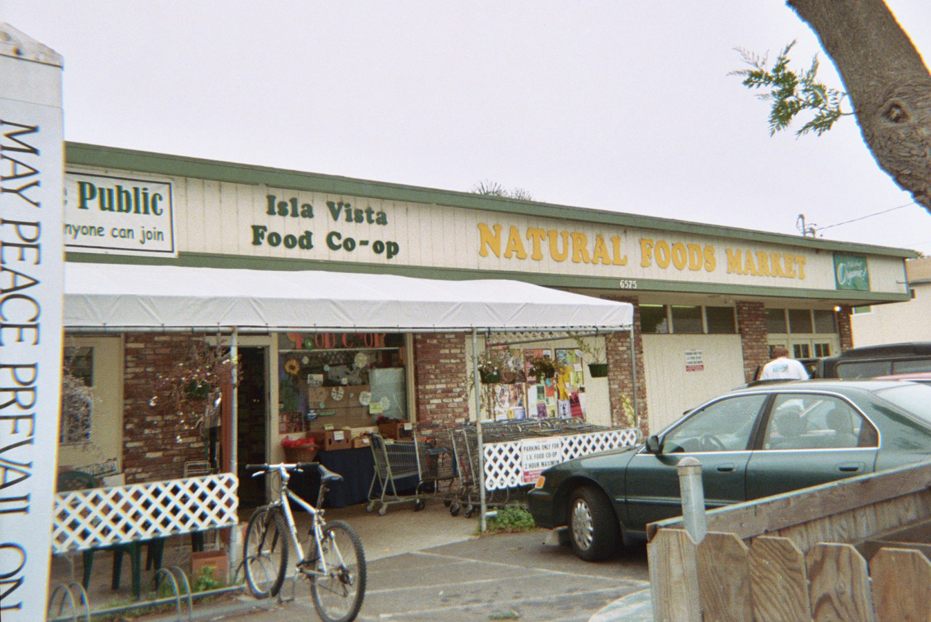 The Isla Vista Co-op (Natural Foods store), 6575 Seville Rd., Isla Vista, California 93117. I took this photo on May 2, 2006, and I release all rights to it.